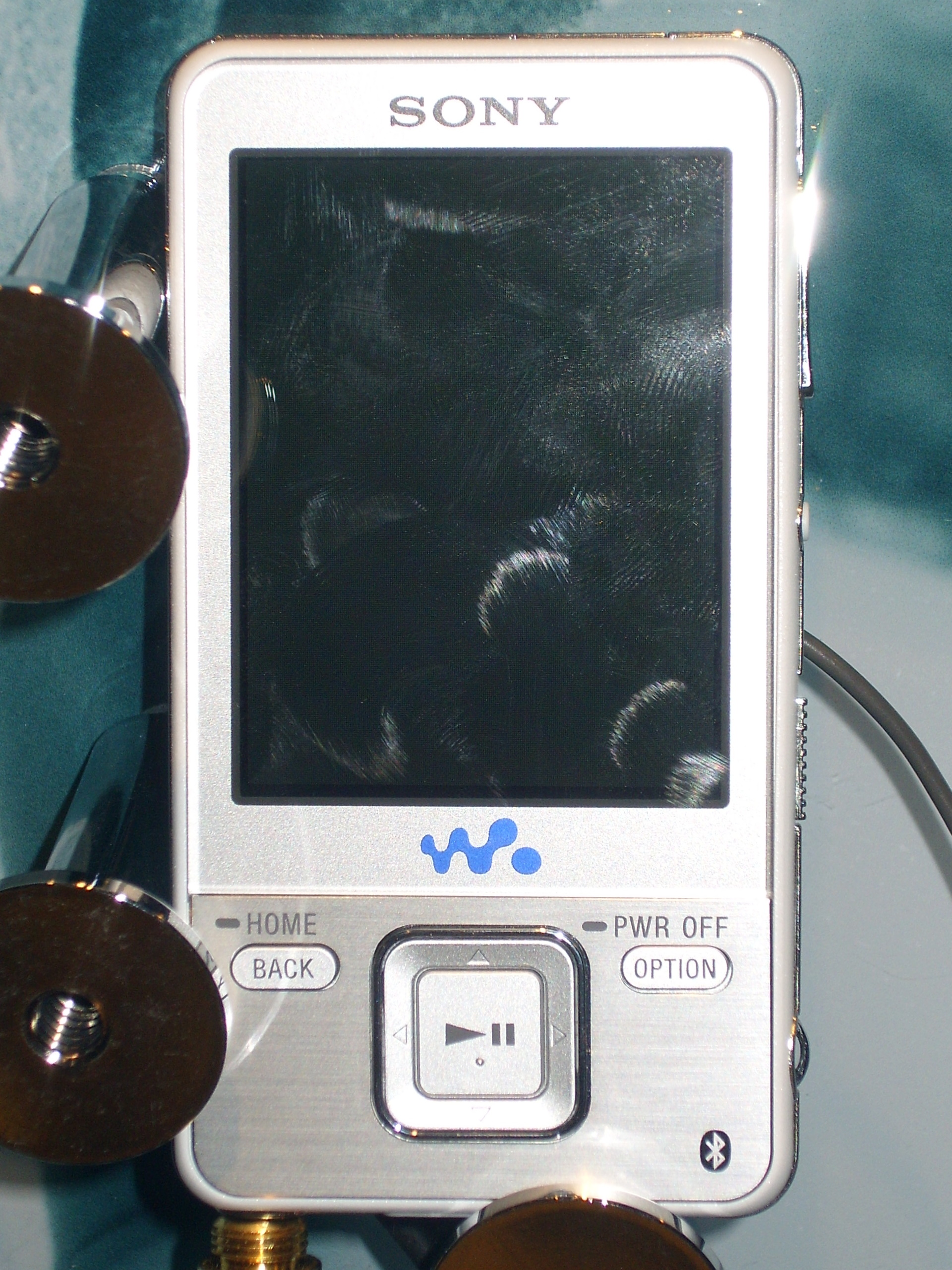 Sony Fair 2008: NWZ-A820 Walkman mp3 player.